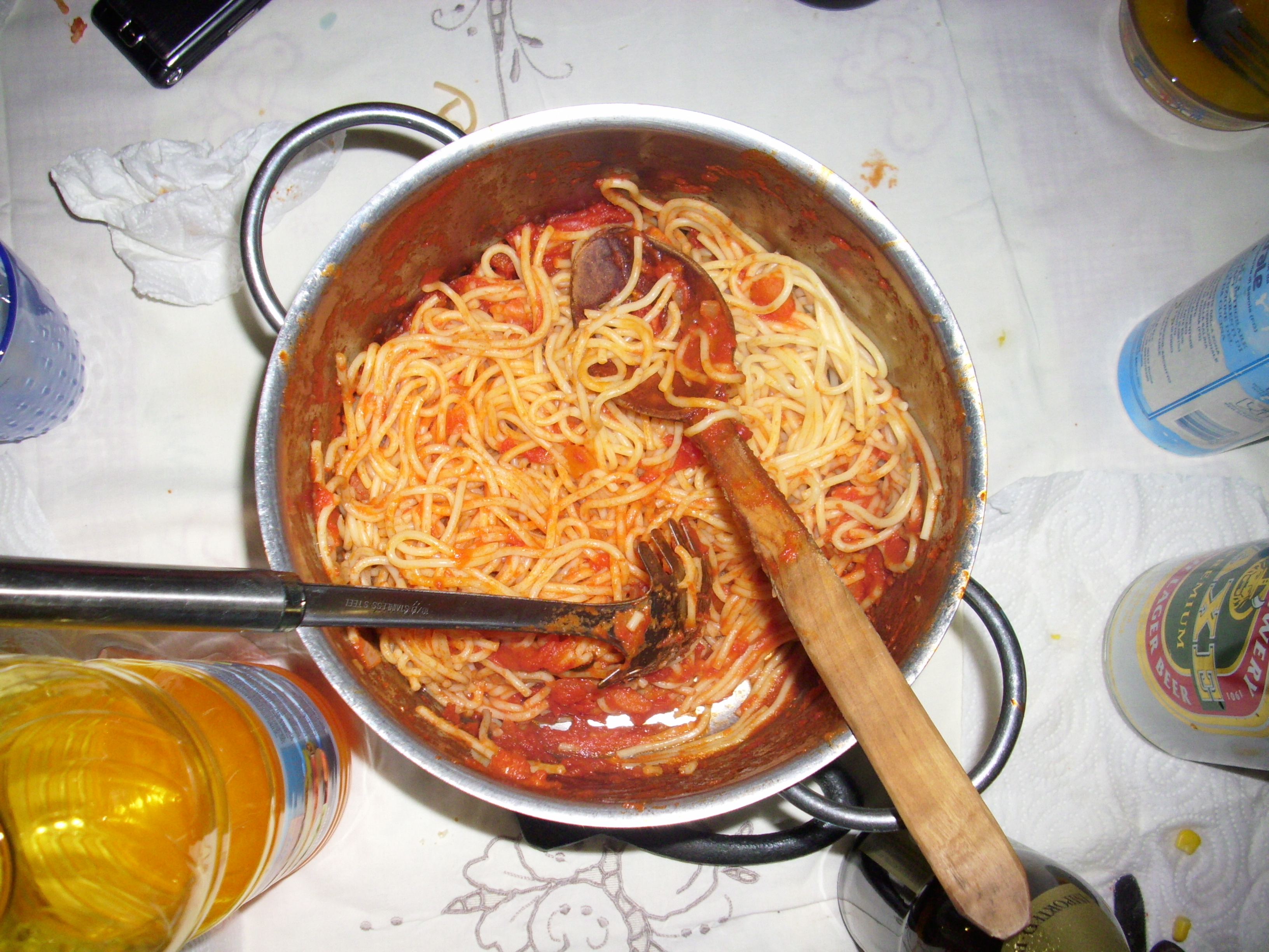 A pot containing "spaghetti" with tomato sauce